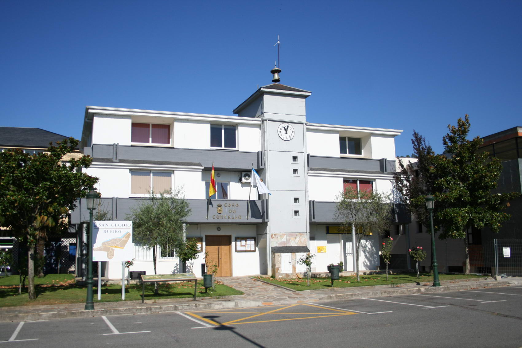 Town Hall in Ribas de Sil (Spain)